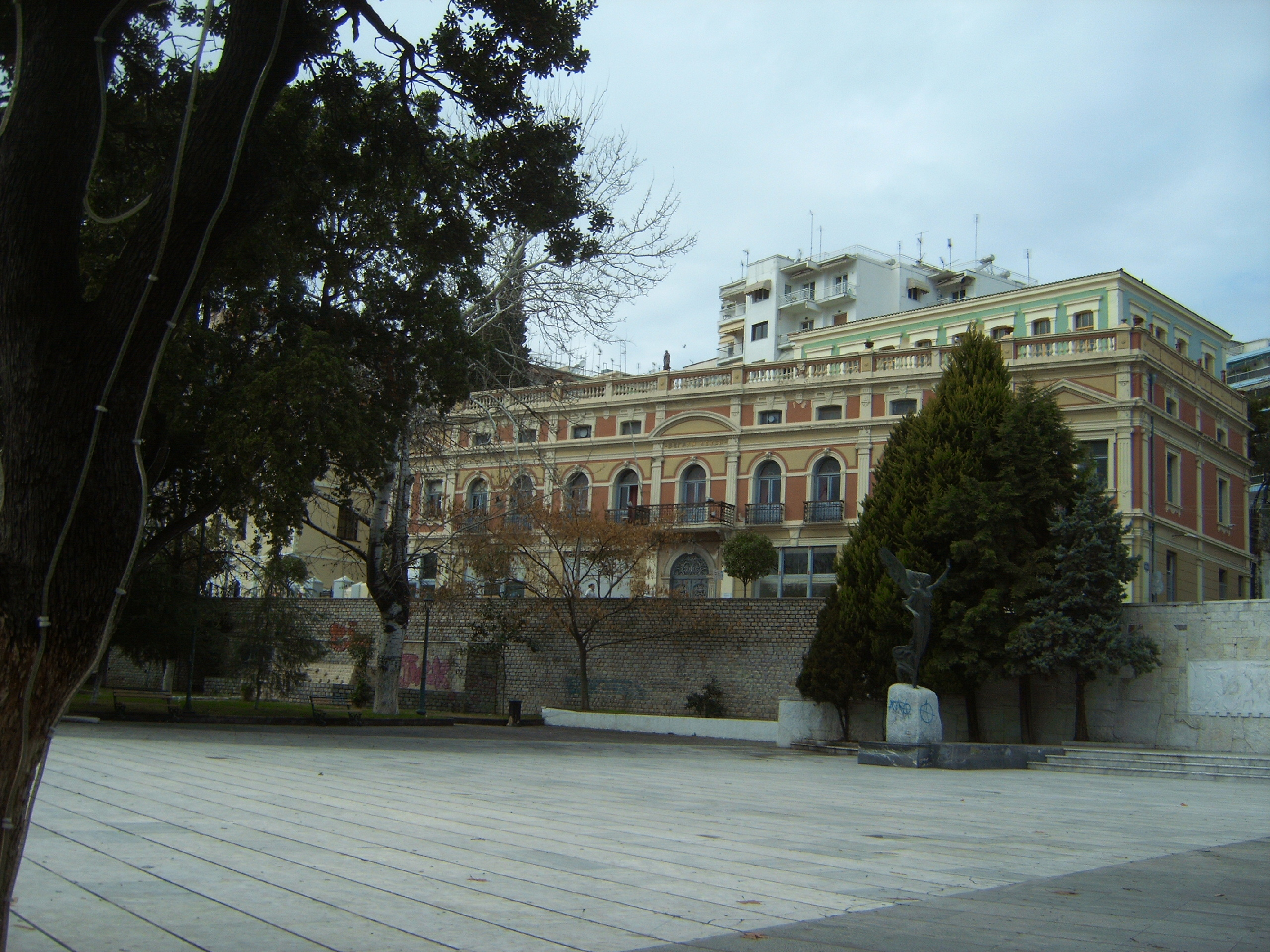 The great Greek community club